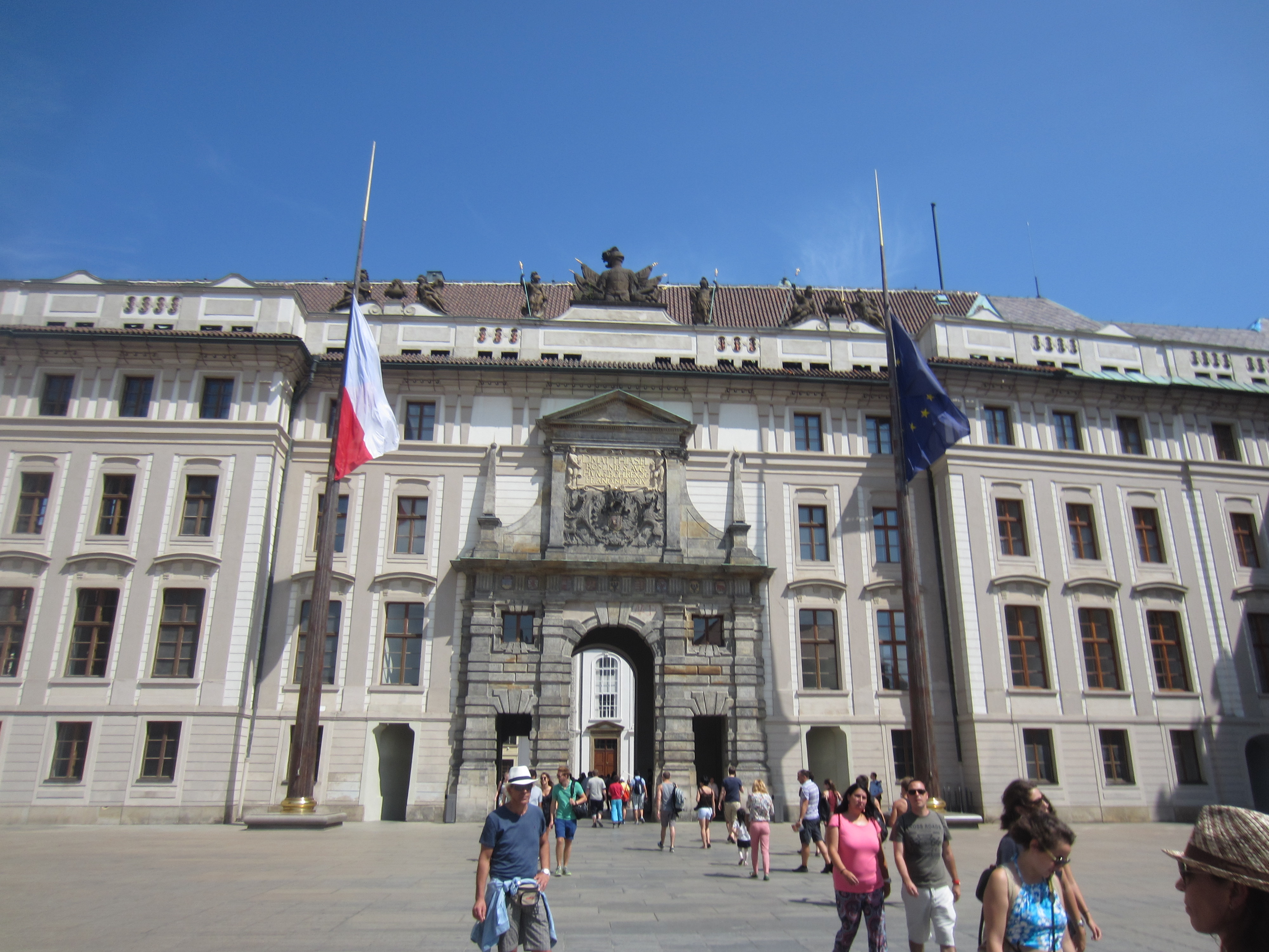 New Royal Palace (Prague Castle)